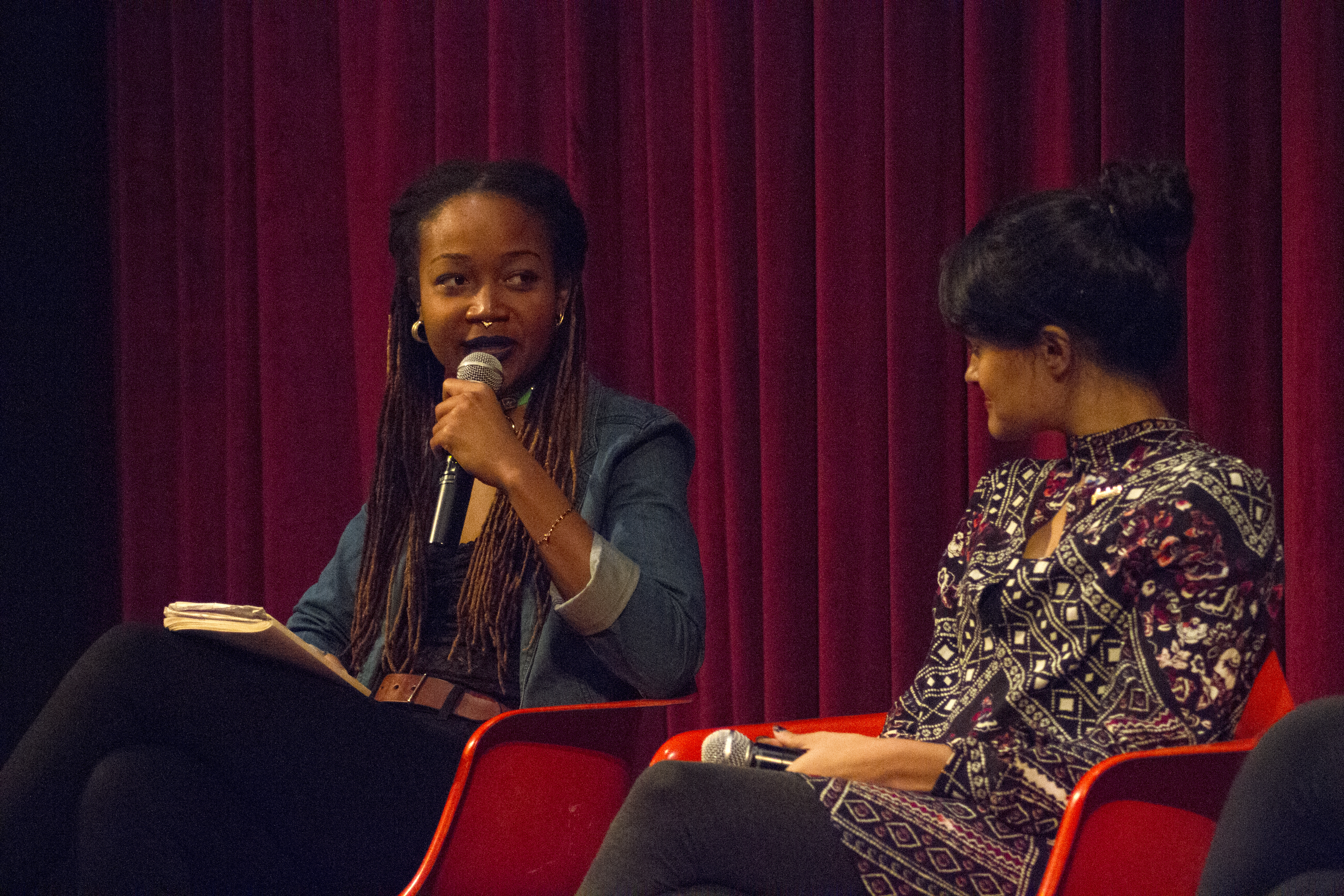 Wikipedia Edit-a-thon: Art + Feminism, March 11, 2017. The Museum of Modern Art.